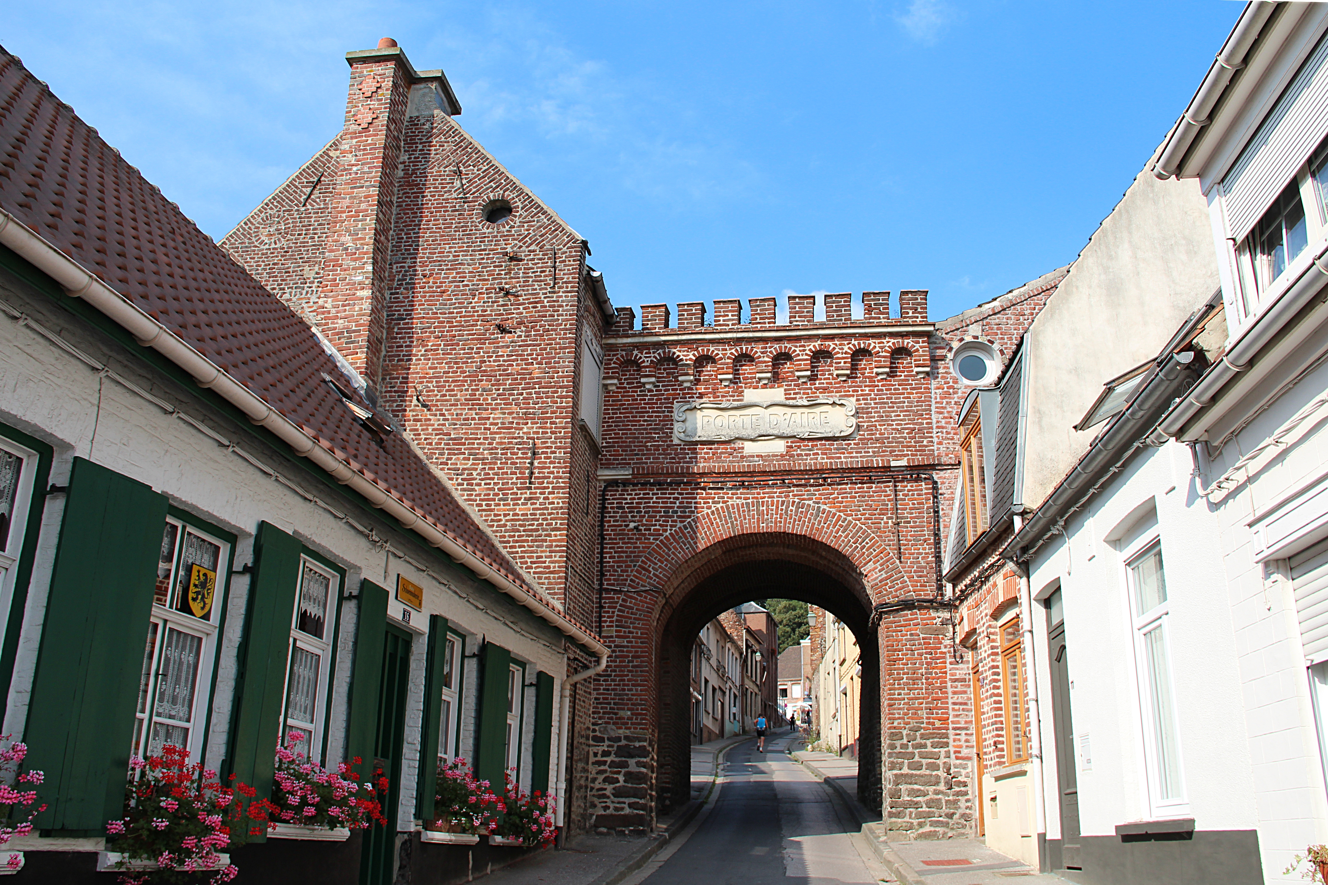 South side of Porte d’Aire in Cassel and rue d’Aire in Cassel (Nord department, France).